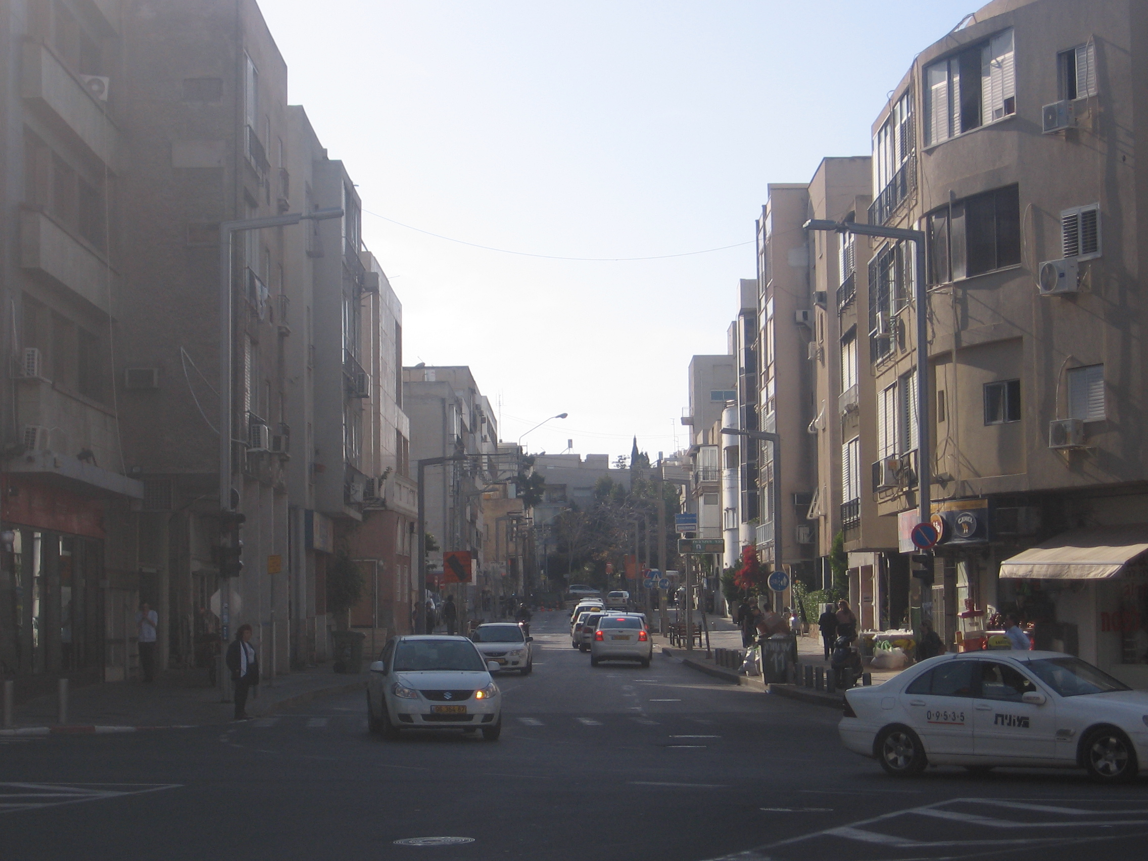 Marmurek st. in Tel Aviv.